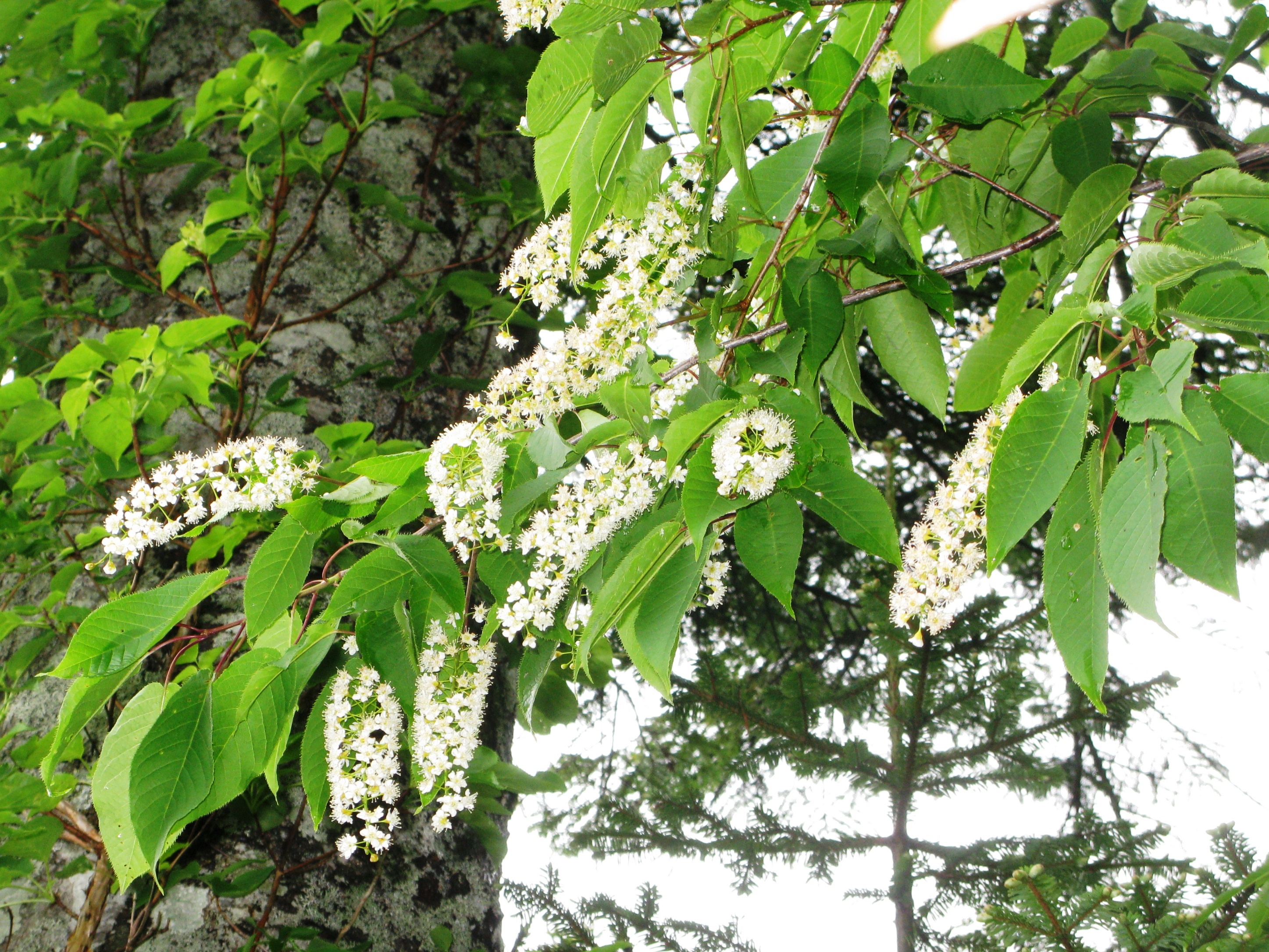 Prunus ssiori, Mount Taishaku, Fkushima pref., Japan